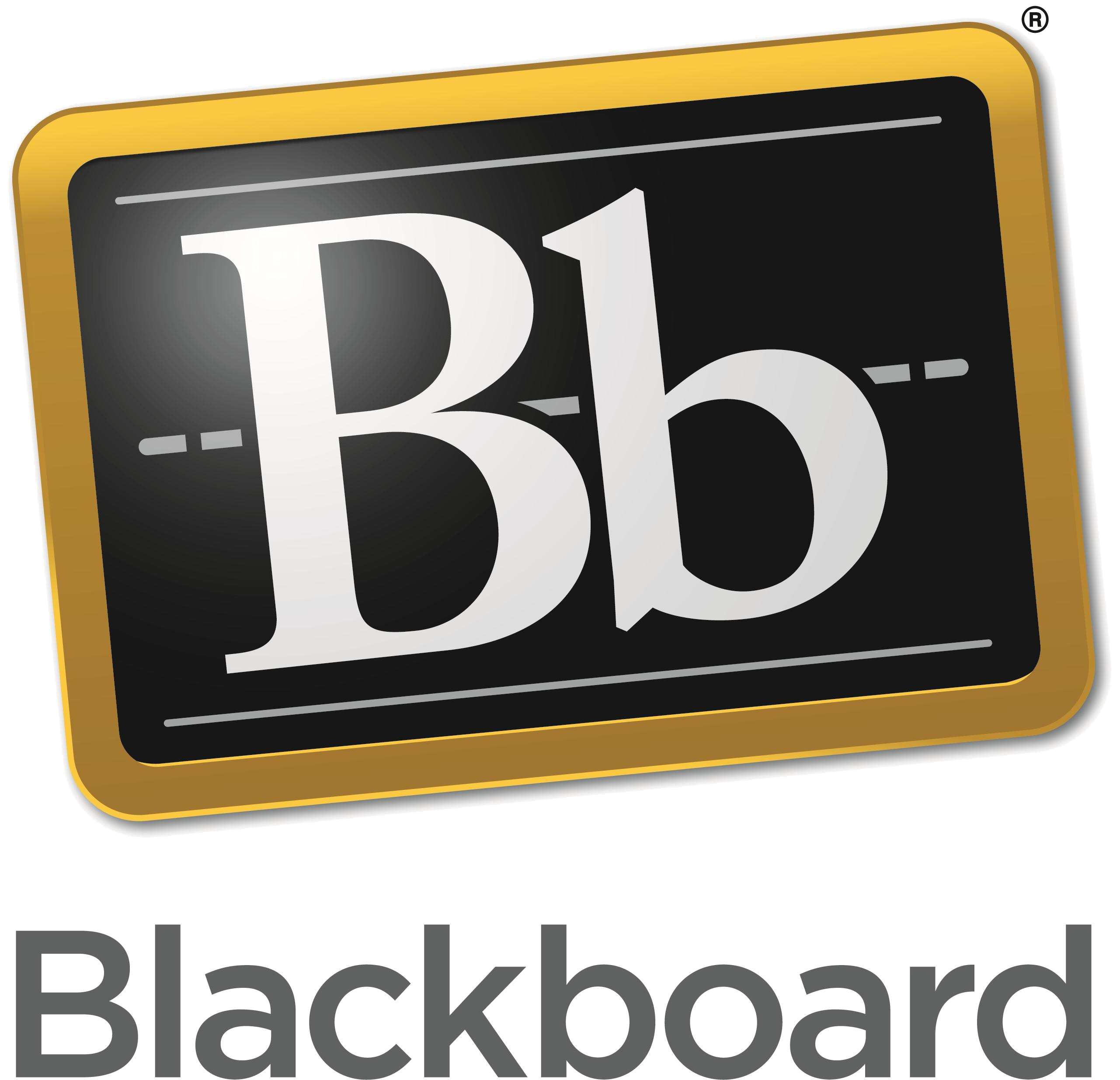 Blackboard Inc. logo, is an educational technology company with corporate headquarters in Washington DC, USA